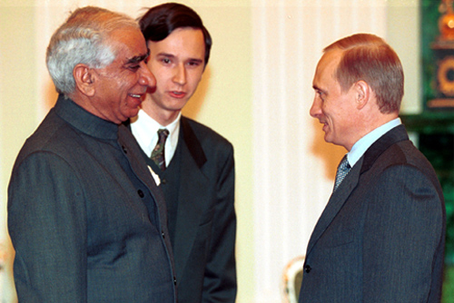 THE KREMLIN, MOSCOW. President Putin with Indian Foreign Minister Jaswant Singh.